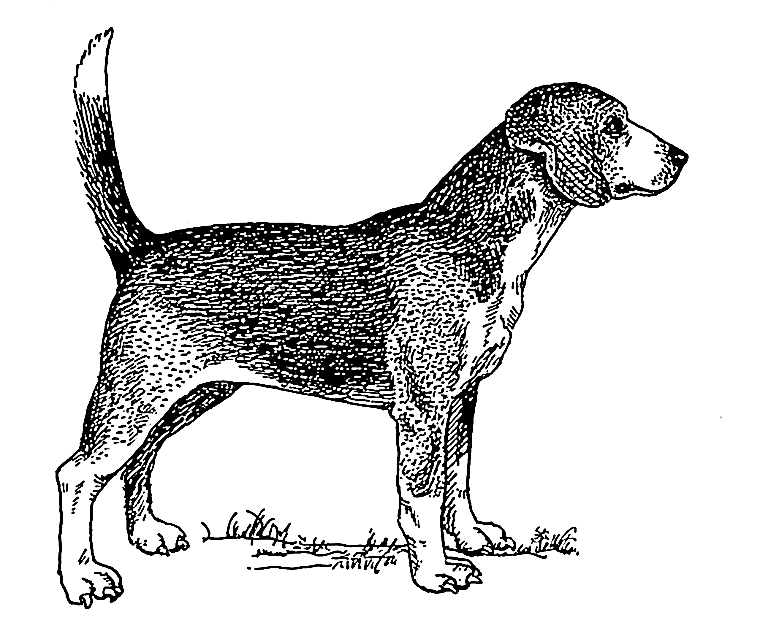 Line art drawing of a beagle.